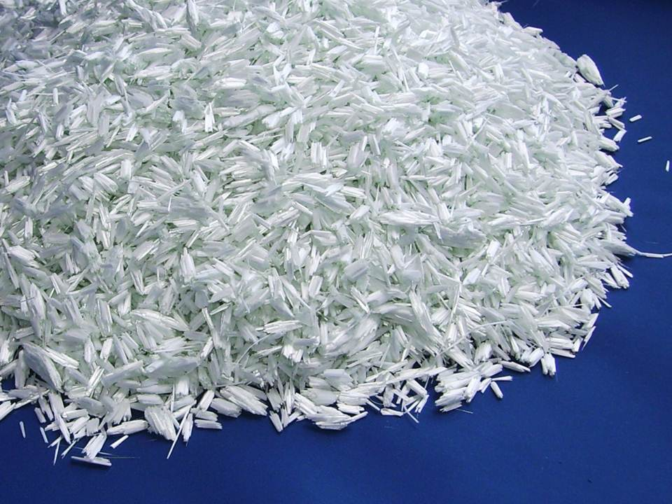 Glass fiber "chopped strands" which are commonly used for reinforcement of thermoplasts. The sizing used for the fibers is based on a polyurethane dispersion.